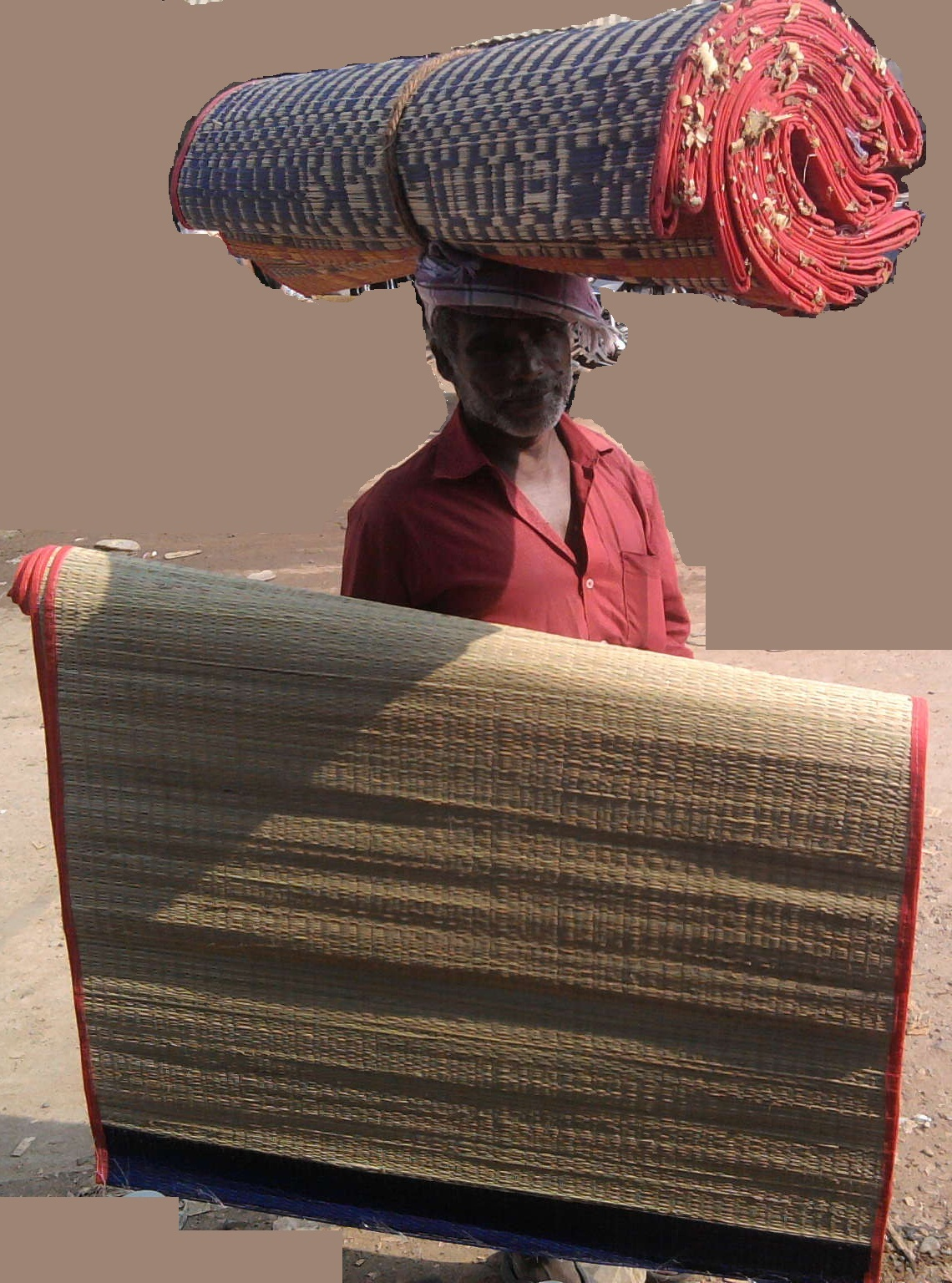 Siri mat seller at Vinjamoor, Nellore (dt), A.P, India.